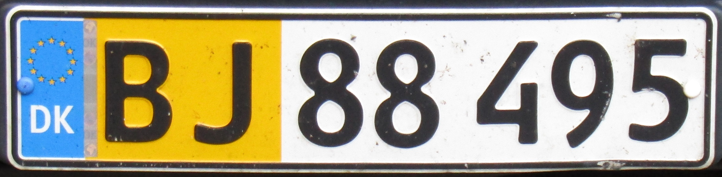 Danish Parrot License Plate